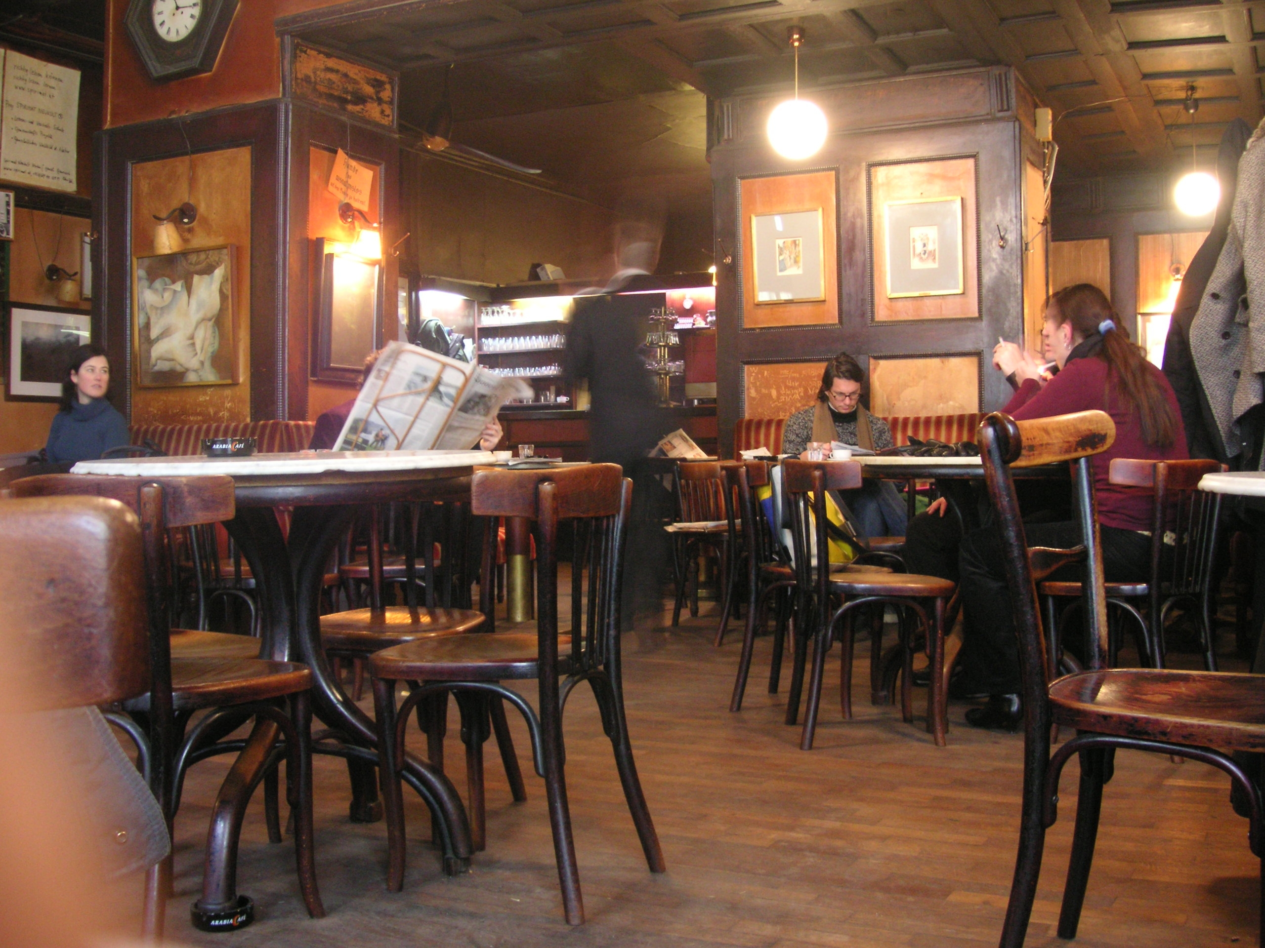 The Café Hawelka on a quiet Thursday morning. Photo by KF, February 2, 2006.